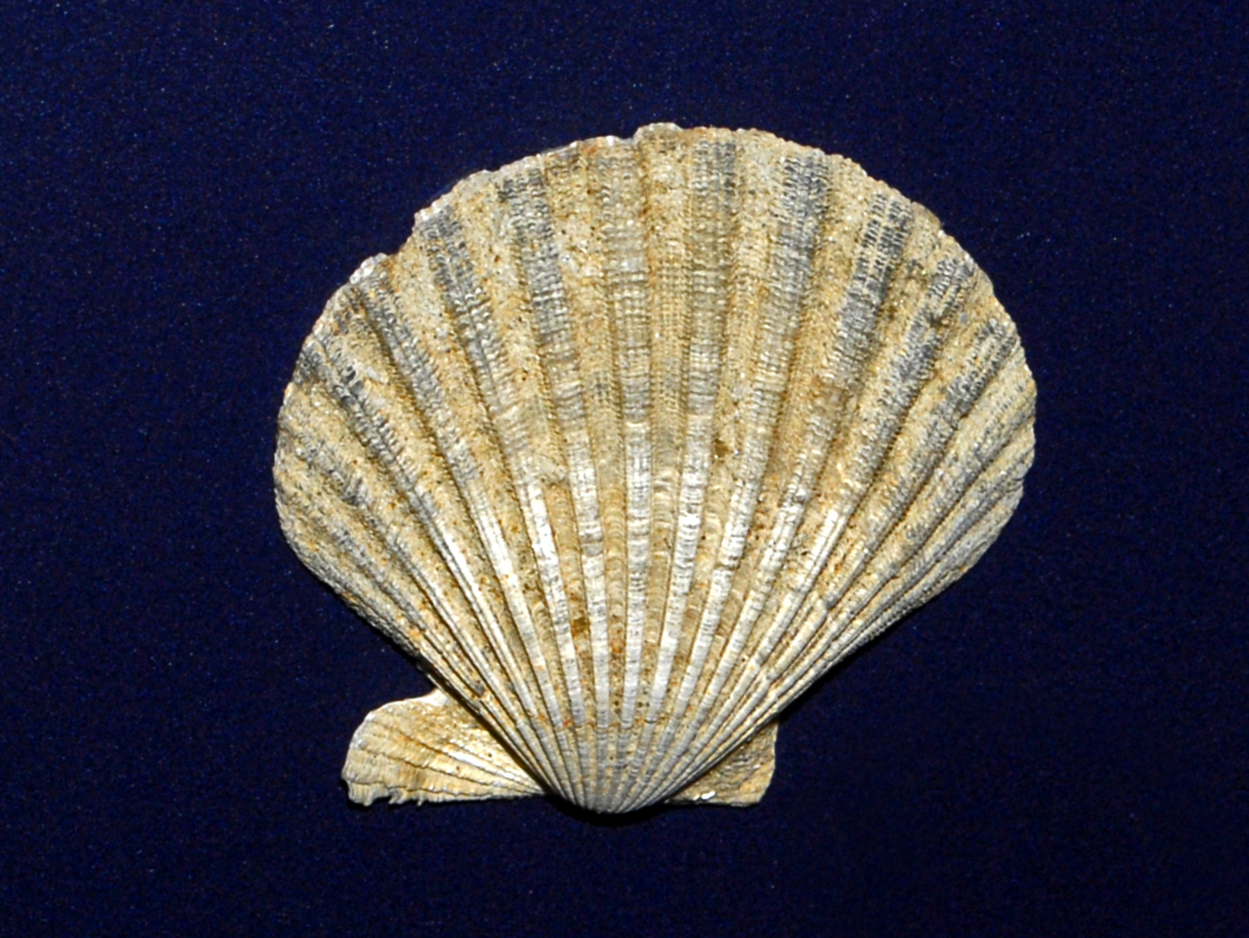 Fossil valve of Aequipecten radians from Pliocene of Italy, on display at the Museo Paleontologico, Asti